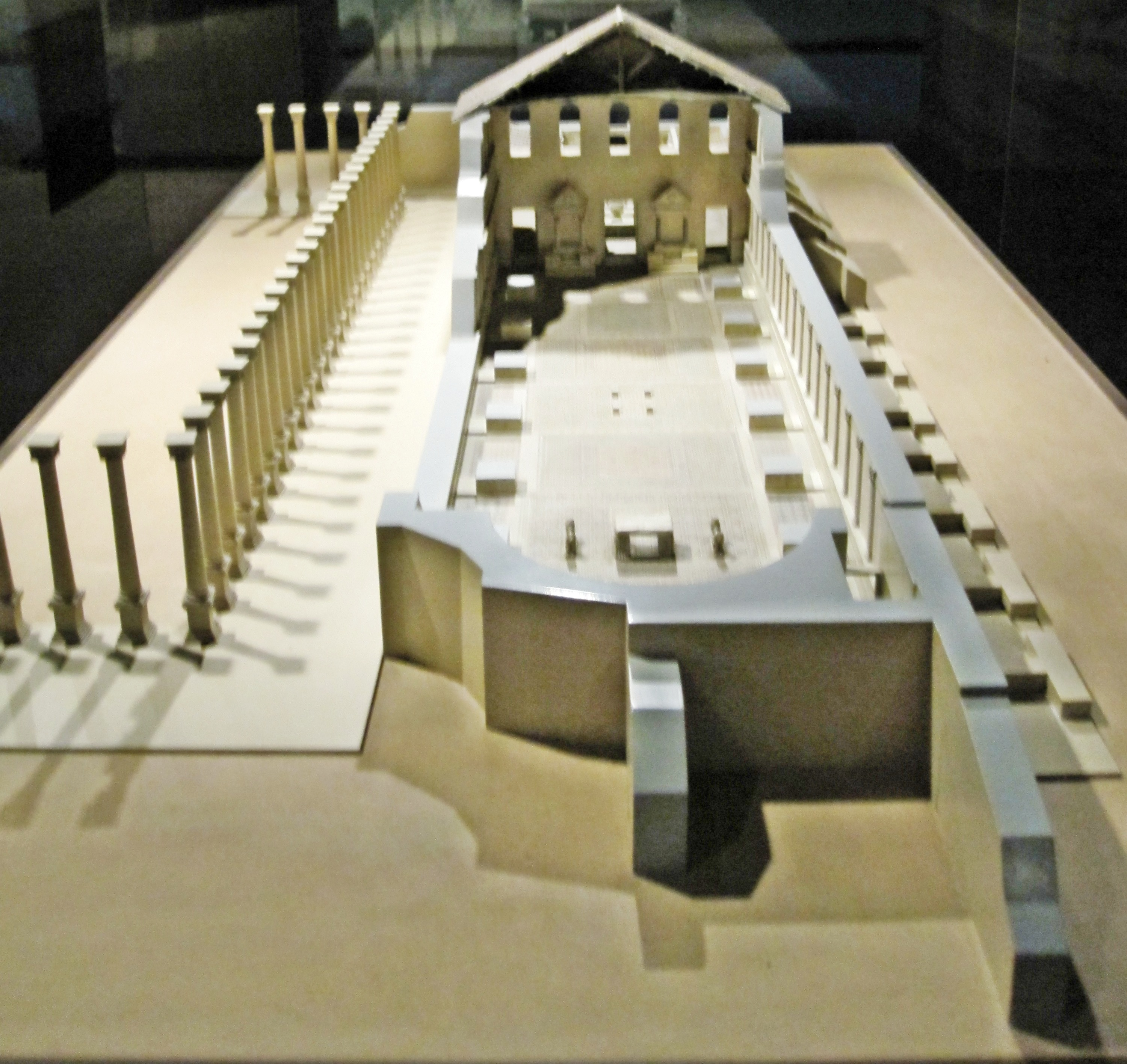 This is a photo of an exhibit at the Diaspora Museum, Tel Aviv - Beit Hatefutsot. This is a model of Sardis Synagogue